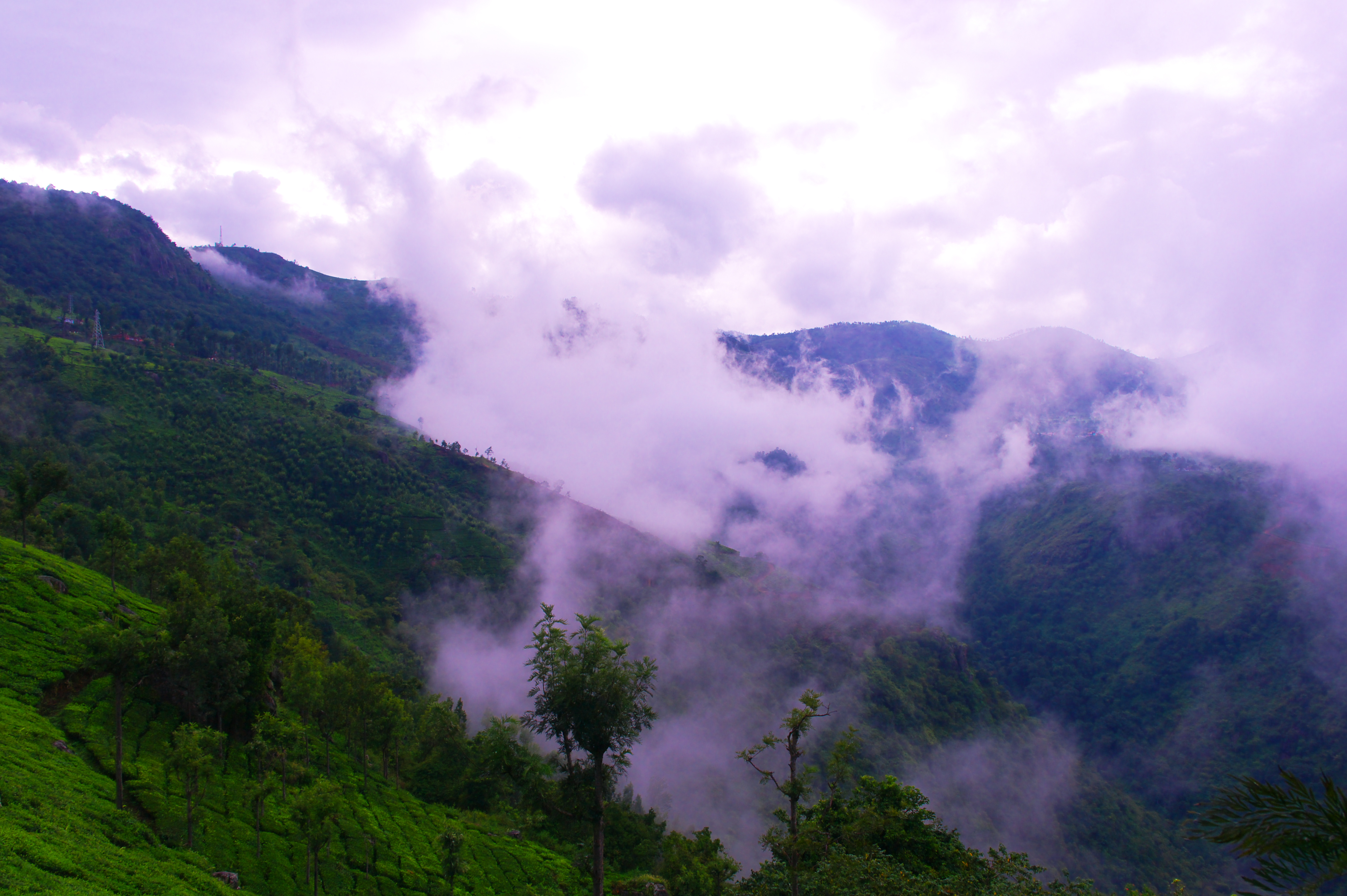 Tea plantation and valley view